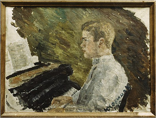 The portrait of Russian pianist and composer Boris Sobinov (1895—1955).